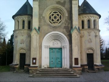 Romanesque Revival (1908-11) church of Saint Anne in Velká Hleďsebe, Cheb District, Czech Republic.